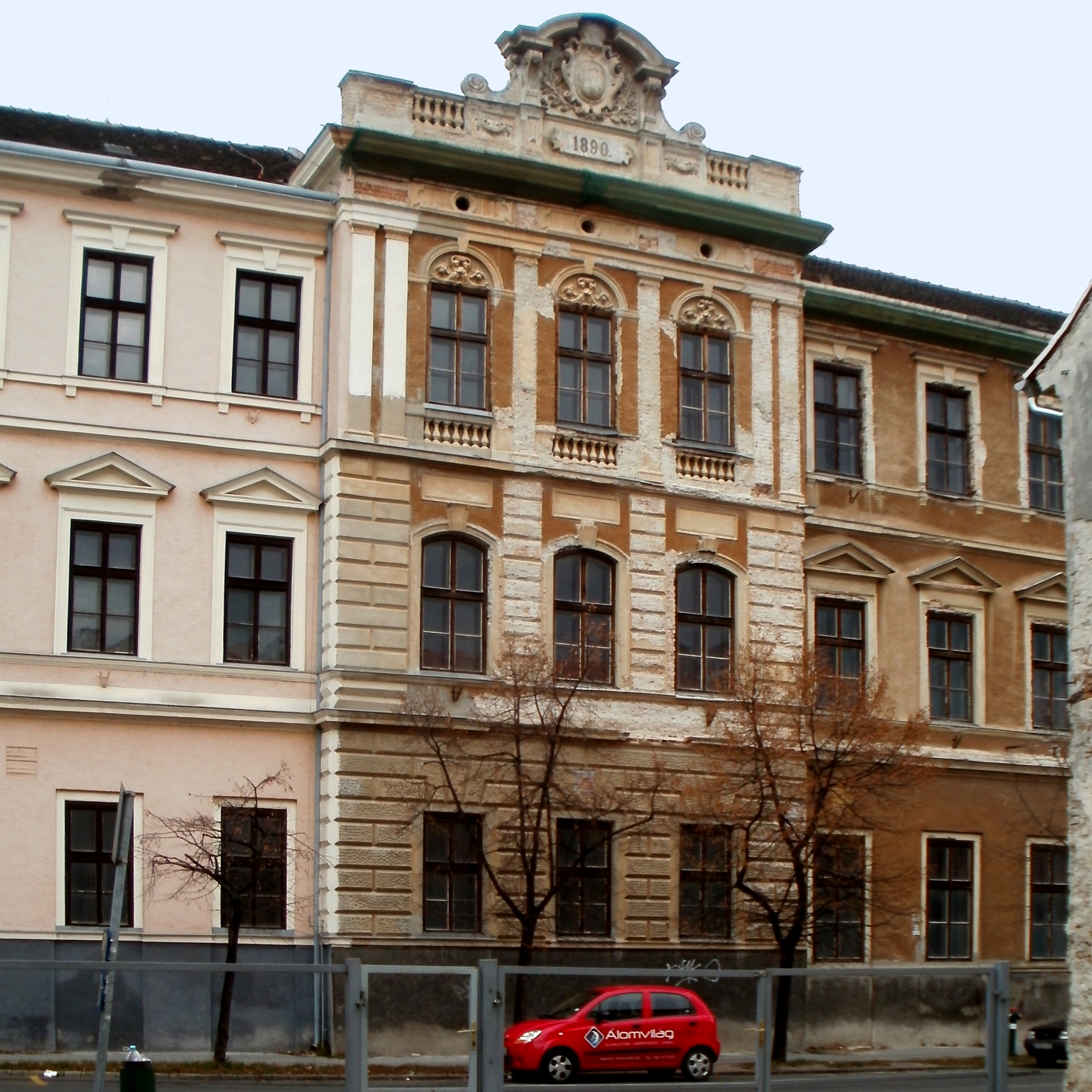 This is a photo of a monument in Hungary, Identifier: 17693